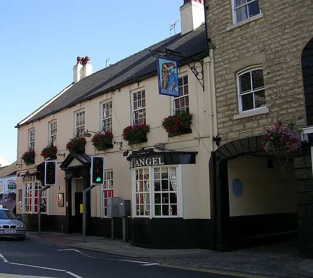 The Angel Inn - North Street See Blue Plaque for more information.